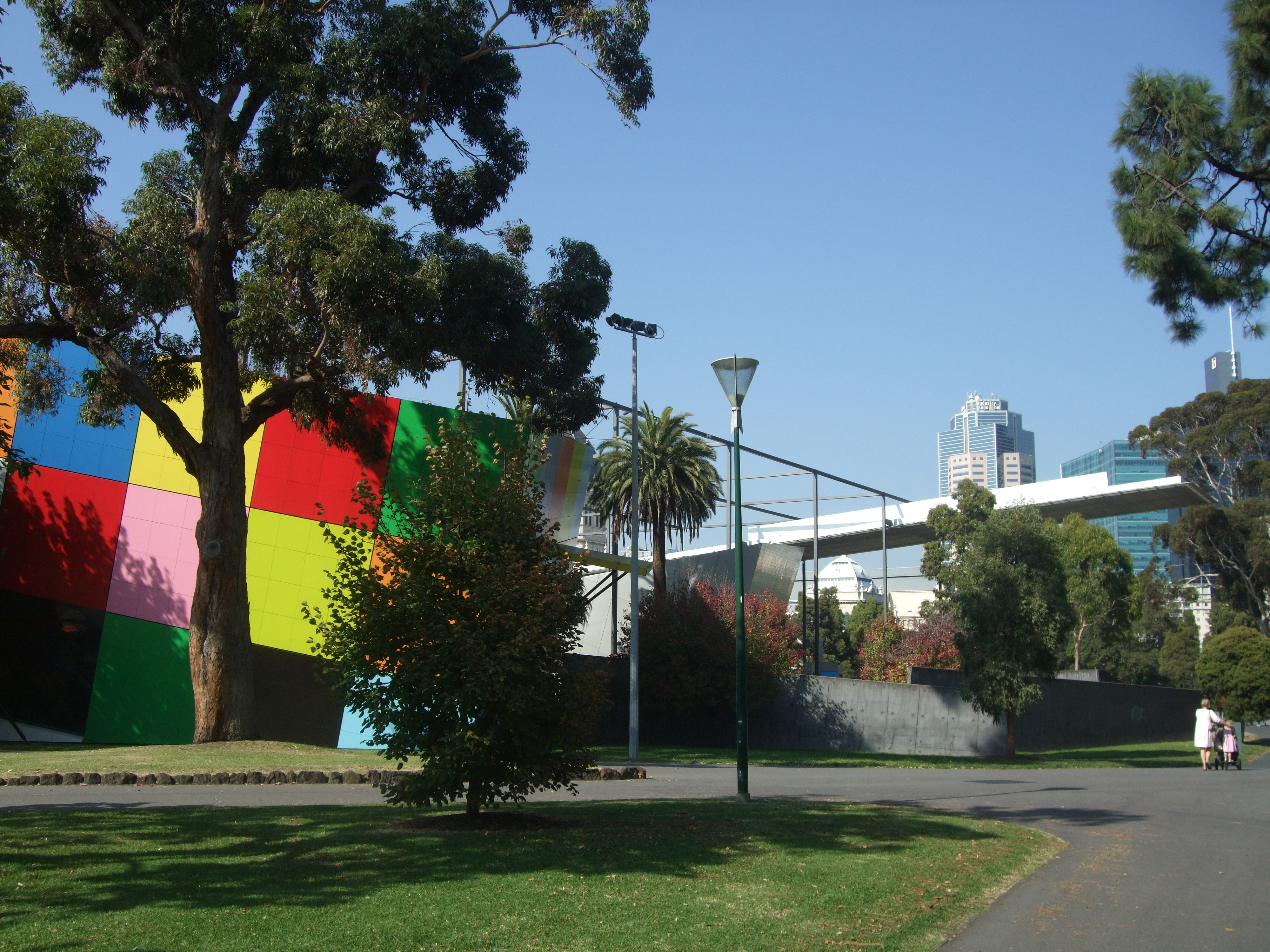 Childrens area of Melbourne Museum.